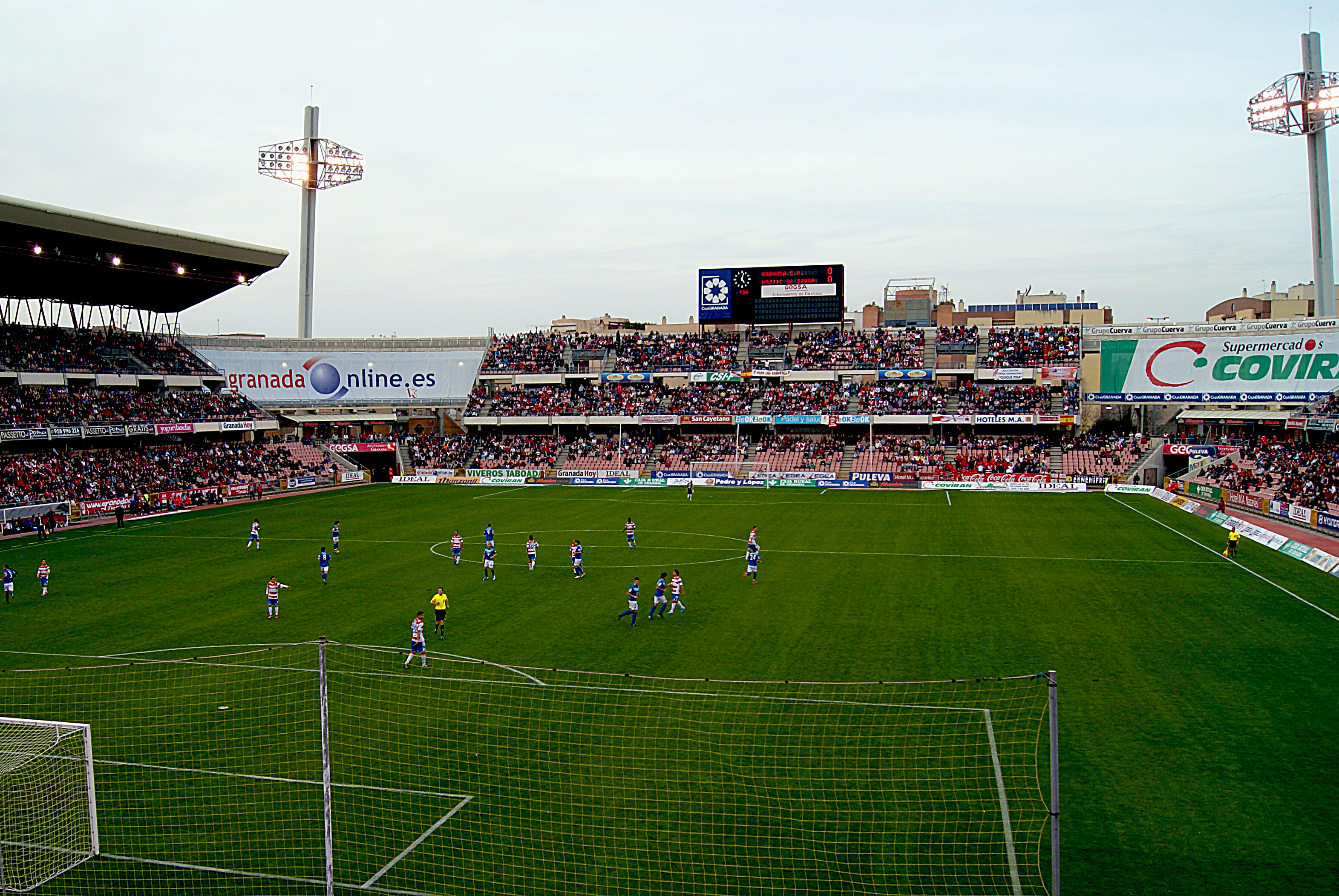 New Los Cármenes Stadium in Grenade, Spain, during a Granada CF-Gimnástic match.